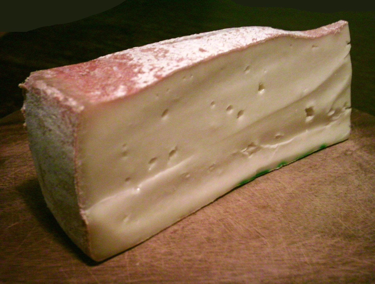 Fontina PDO Cheese (Italy)